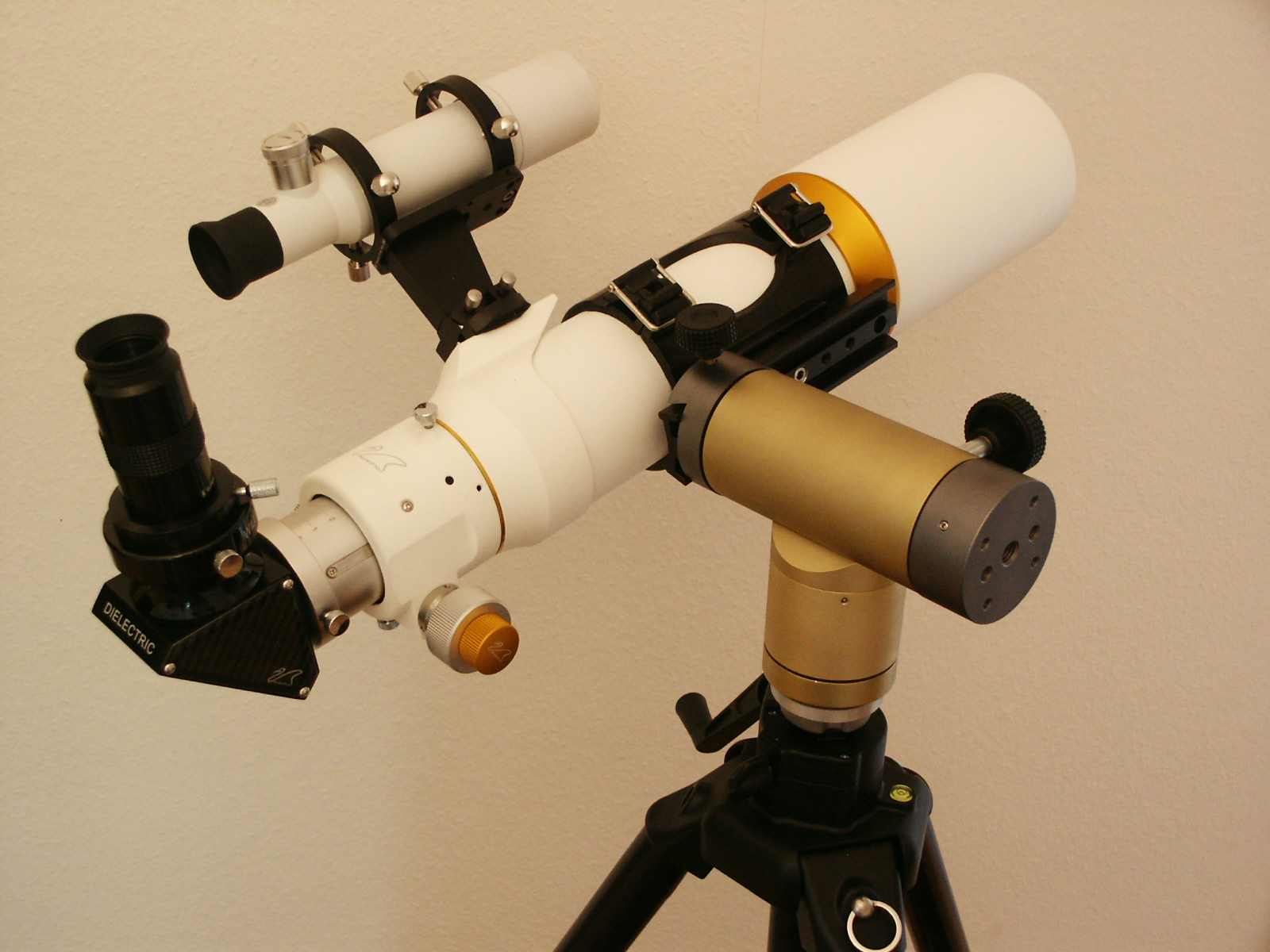 Small refracting telescope on alt-azimuthal mount.